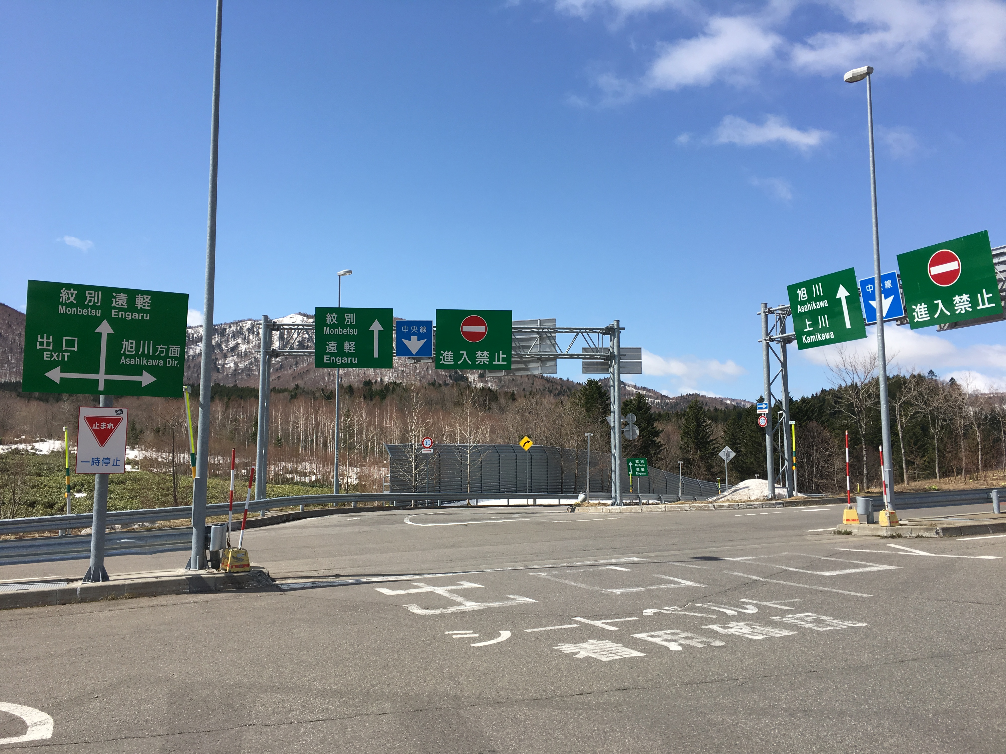 Asahikawa-Monbetsu Expressway Okushirataki IC